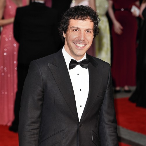 Alex Gaumond attends the Olivier Awards at the Royal Opera House on Sunday 3rd April, 2016.